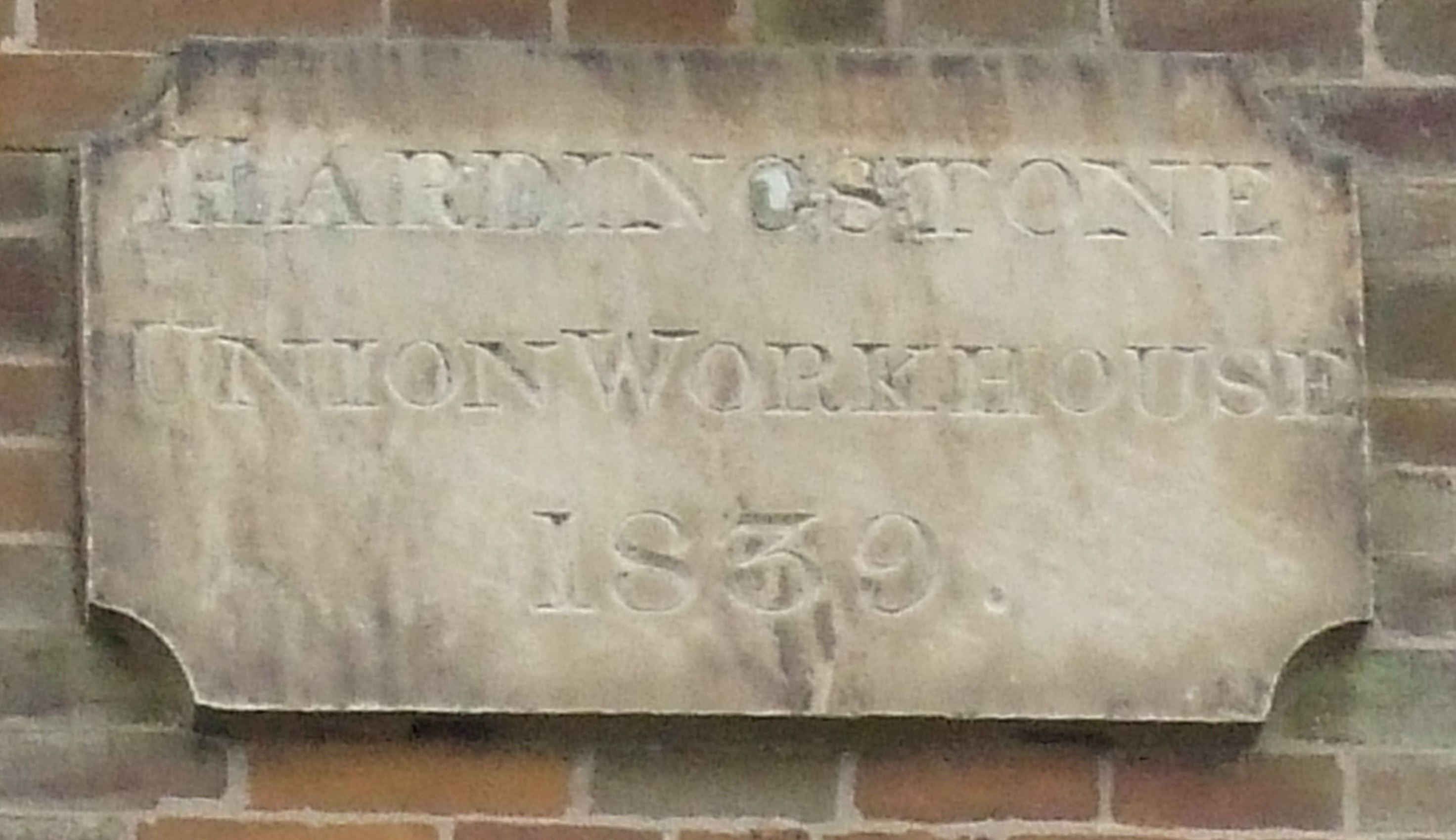 Hardingstone Union Workhouse sign on the former Wootton Barracks